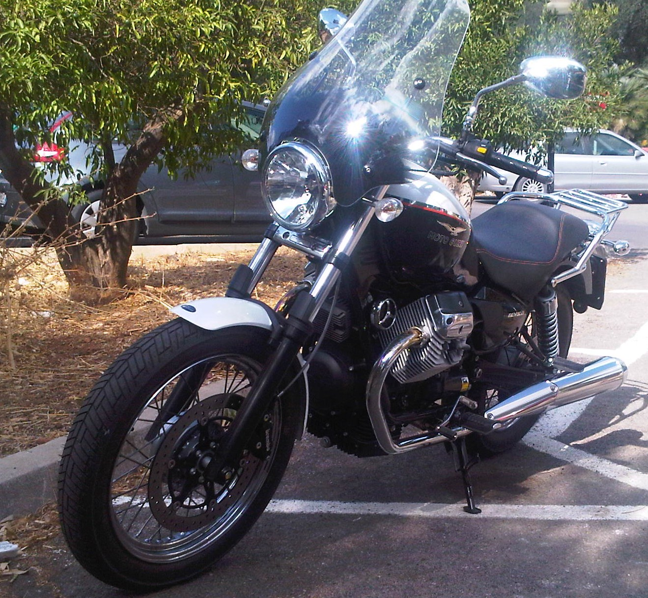 Moto Guzzi Nevada "Anniversario" - 745 CC